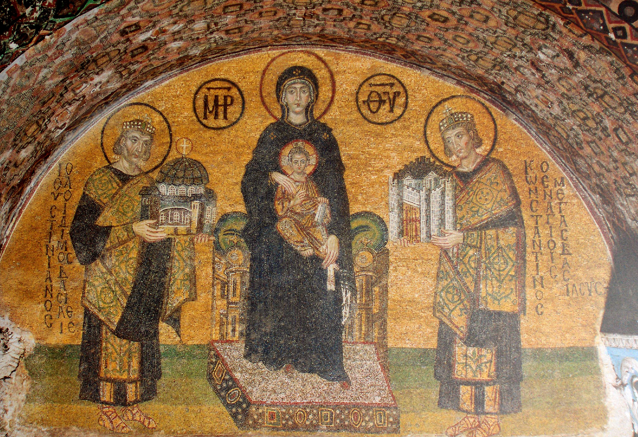 Hagia Sophia ; mosaics over the Southwestern Entrance; Istanbul, Turkey. Includes monogram for Μητηρ Θεου ("Mother of God").